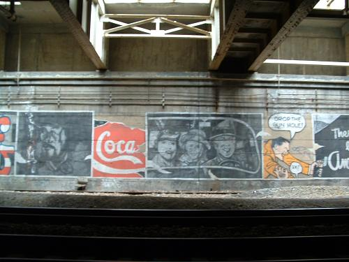 Urban decay, New York City, USA